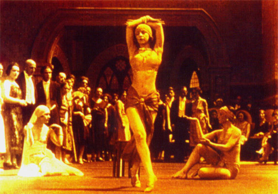 Unknow Actress from Garras de Oro film.